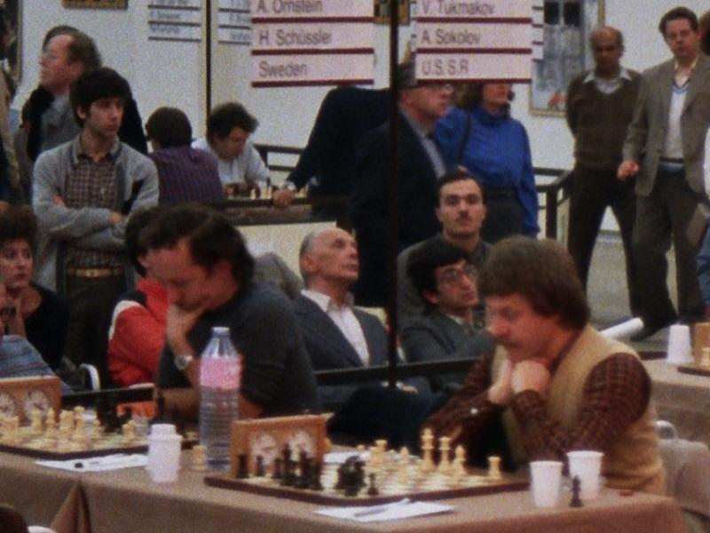 József Pintér and András Adorján, Chess Olympiad 1984 in Thessaloniki, Photographer Gerhard Hund.